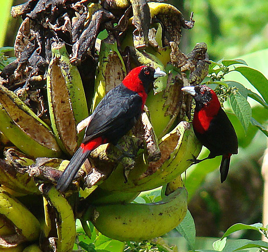 Known by names such as Tangara capuchirroja. Northern Nicaragua. In context at